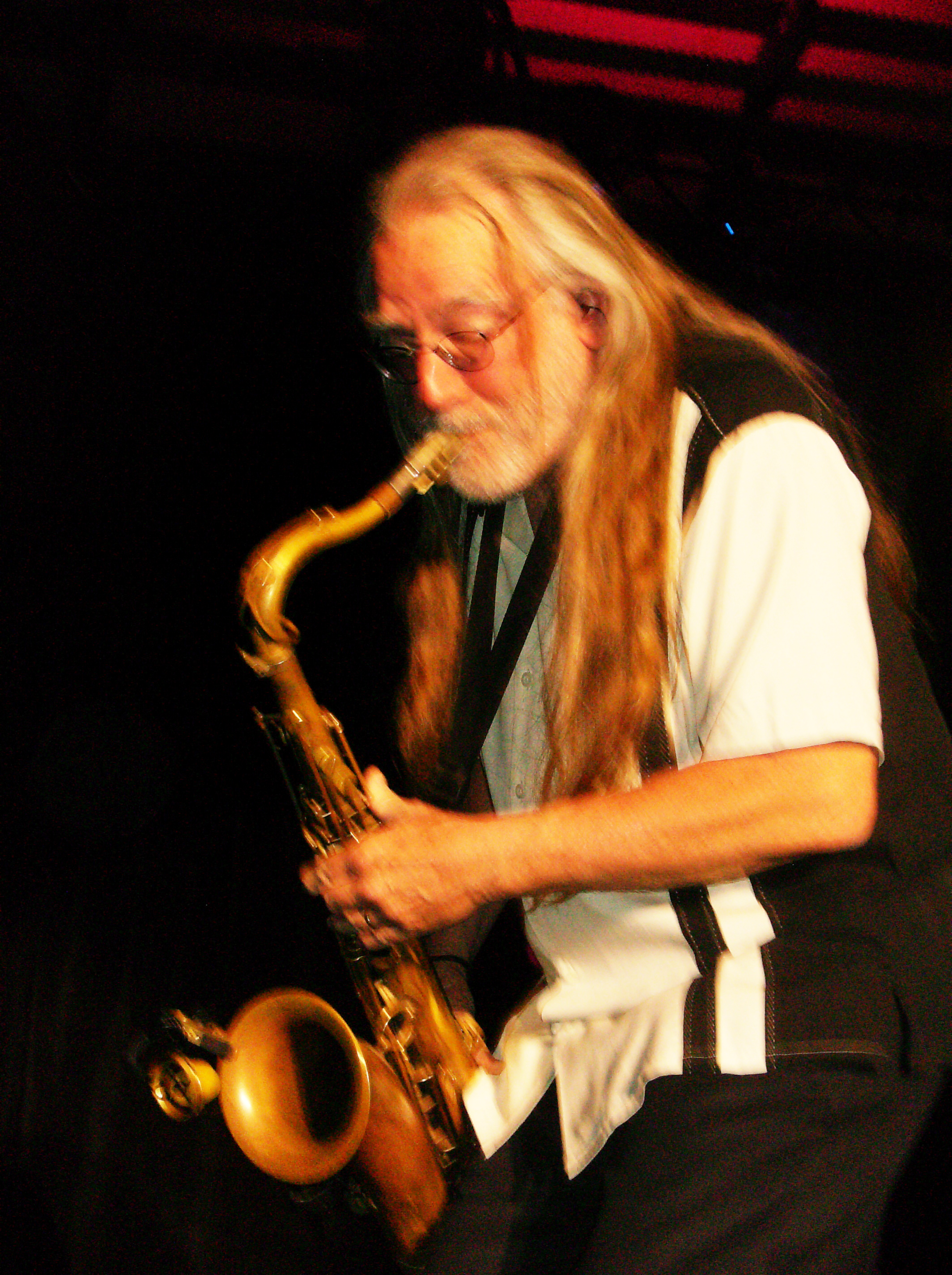 Charlie Dechant playing an extended saxophone solo in "I Can't Go For That (No Can Do)".